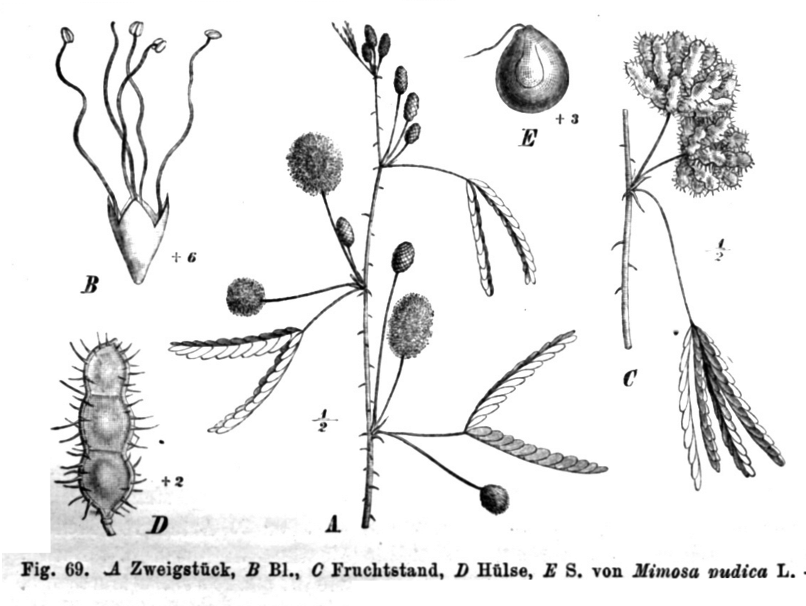 Illustration from book